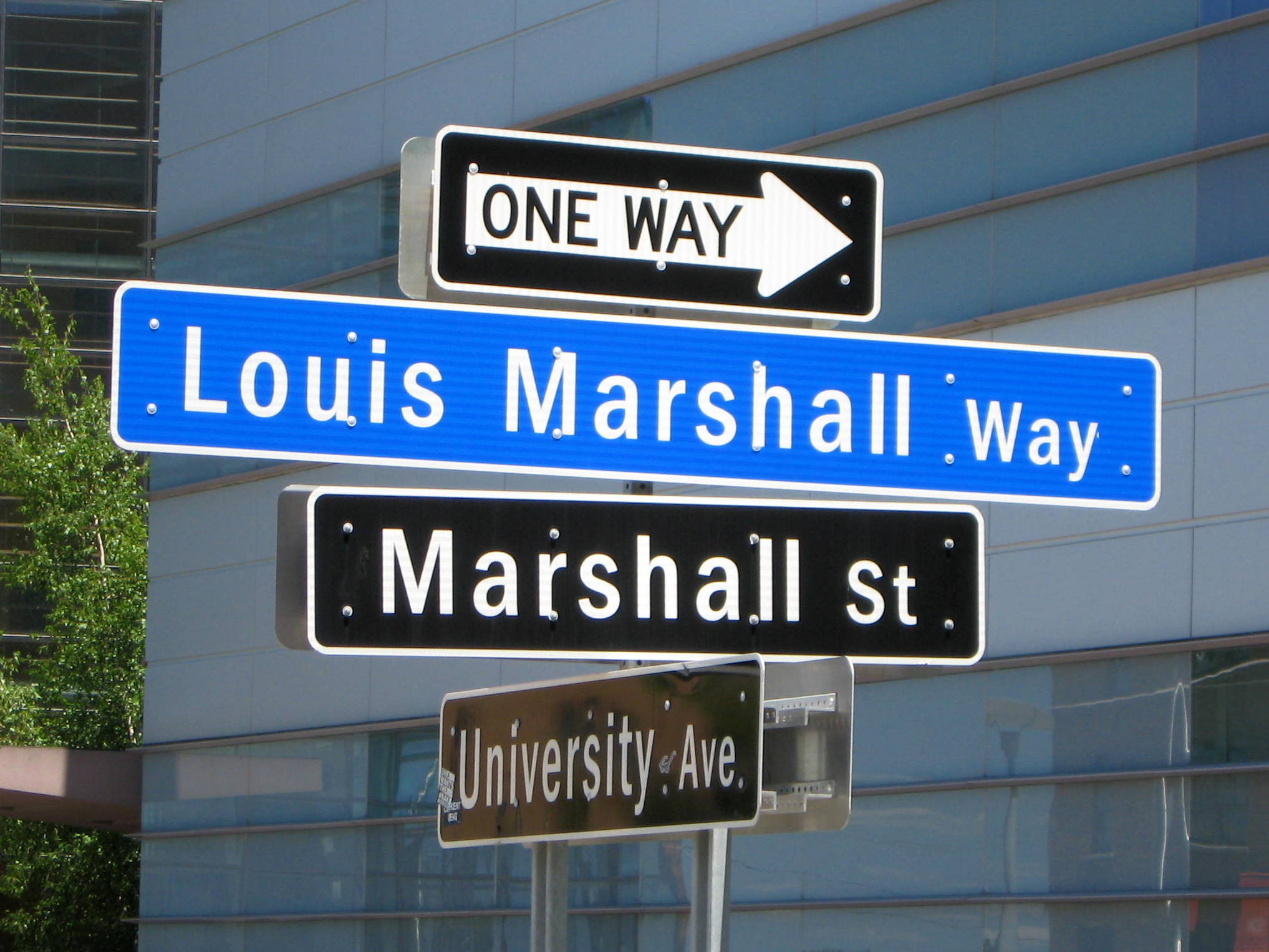 Street signs, Marshall Street & University Avenue, Syracuse, New York